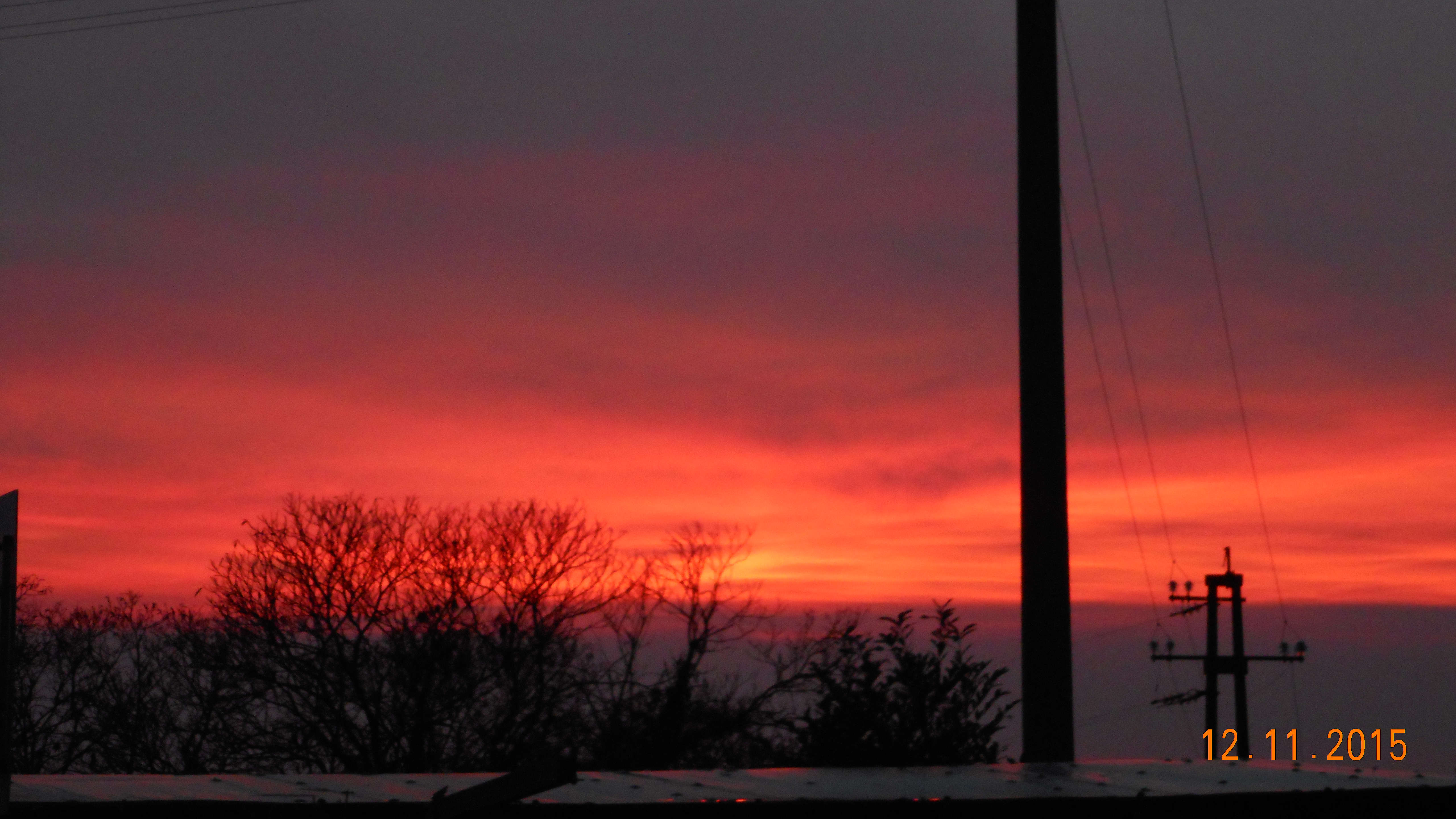 Suggestivo tramonto dal Colle del Telegrafo